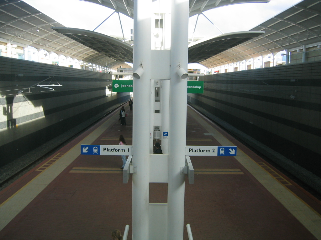 Transperth Joondalup Train Station